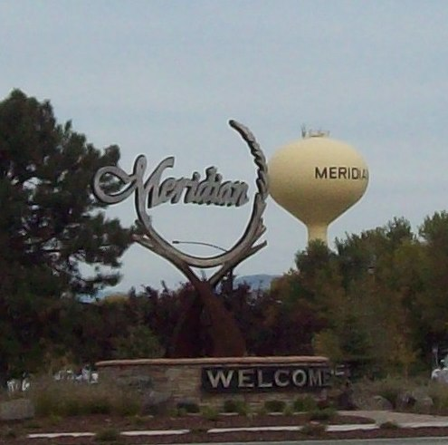 The Welcome Sign on Meridian Road in Meridian, Idaho, USA. The yellow water tower in the background is jokingly referred to as "The Onion."